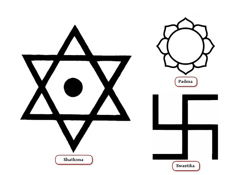 Three basic Hindu symbols: Shatkona, Padma, and Swastika.